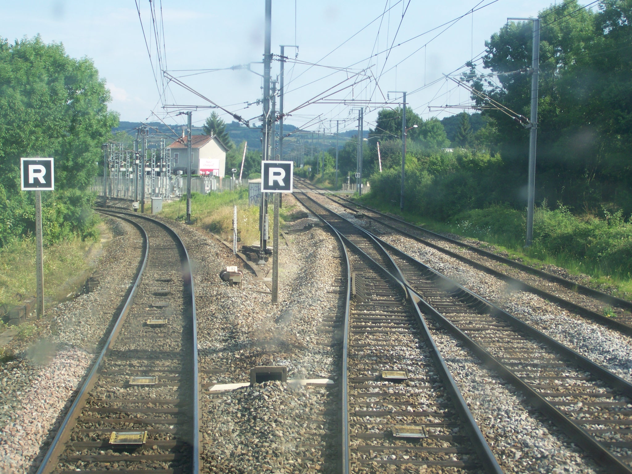 When leaving St-André-le-Gaz railway station in Isère, France: single-track line to Chambéry, Savoie on the left, and double-track line to Grenoble on the right.